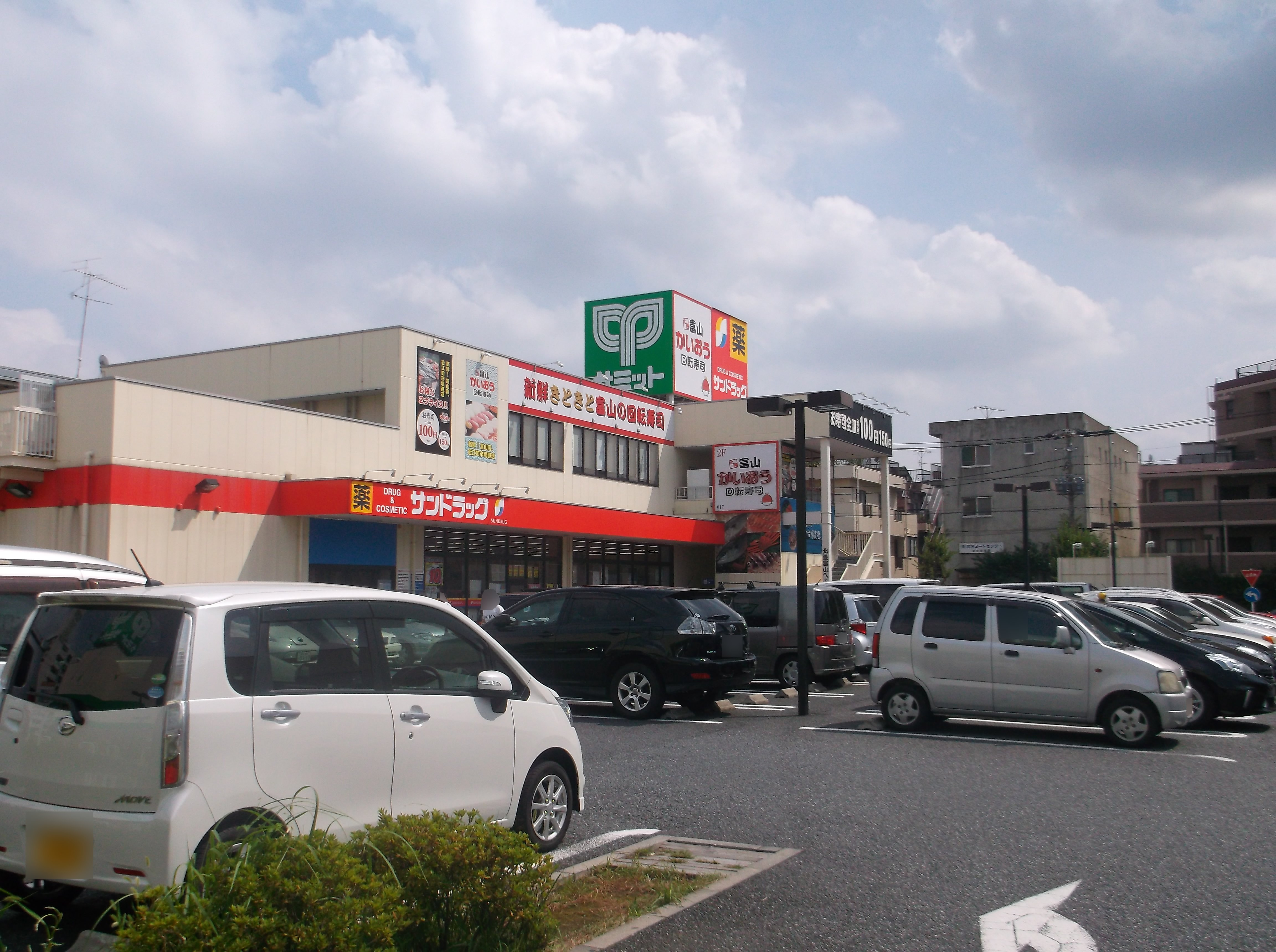 A Photo of "Sun drug"(a drug store in Tokyo.)Hokima branch shop,Hokima,Adachi-ku,Tokyo,Japan.